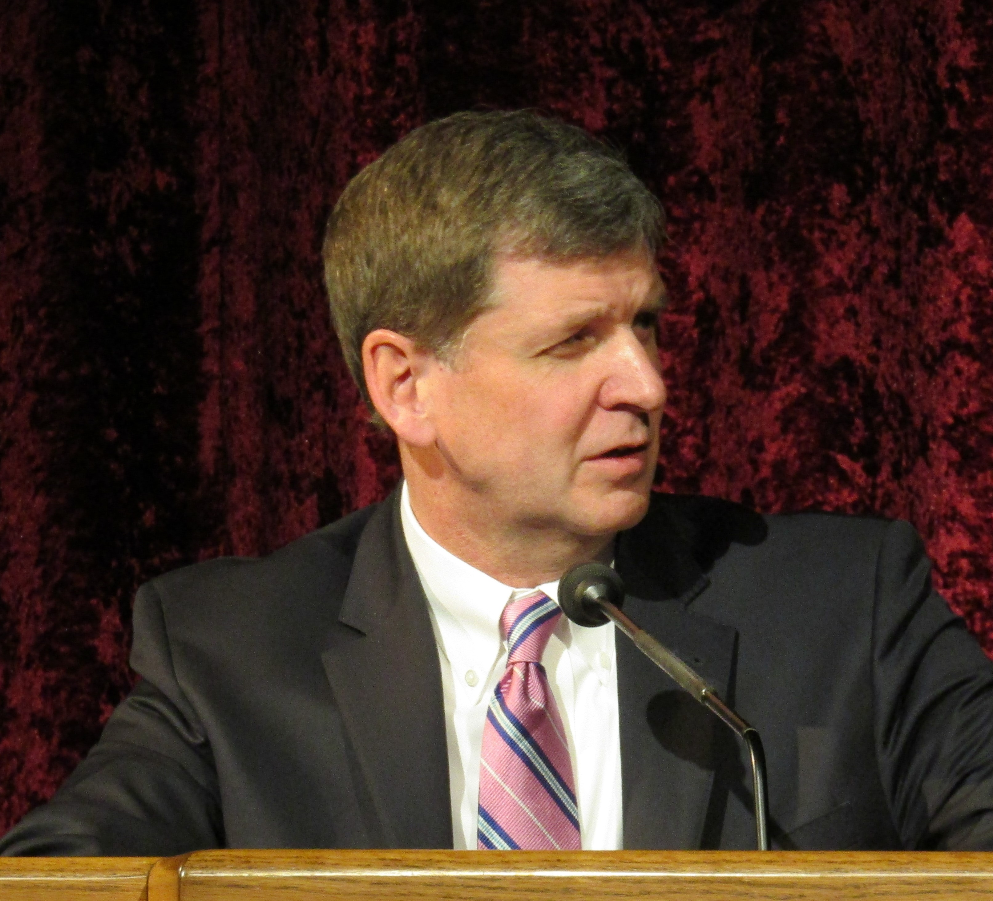 James R. Rasband speaking at the 2018 Religious Freedom Annual Review.